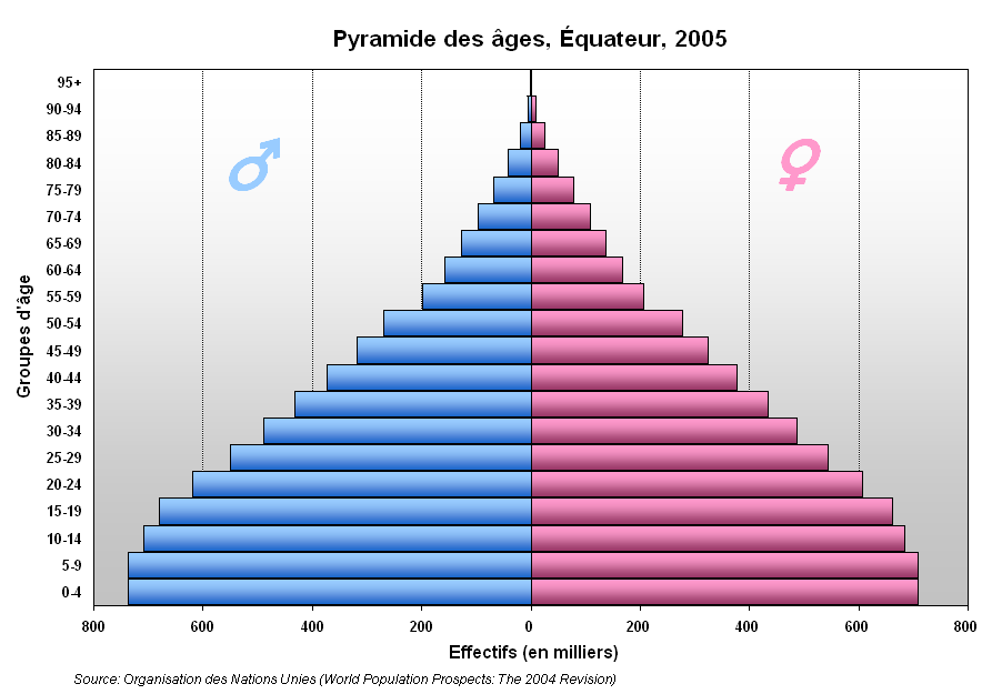 Ecuador Population pyramid, 2005